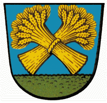 Coat of arms of Birlenbach